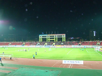 Tancheon Stadium, E Stand before canopy installation.